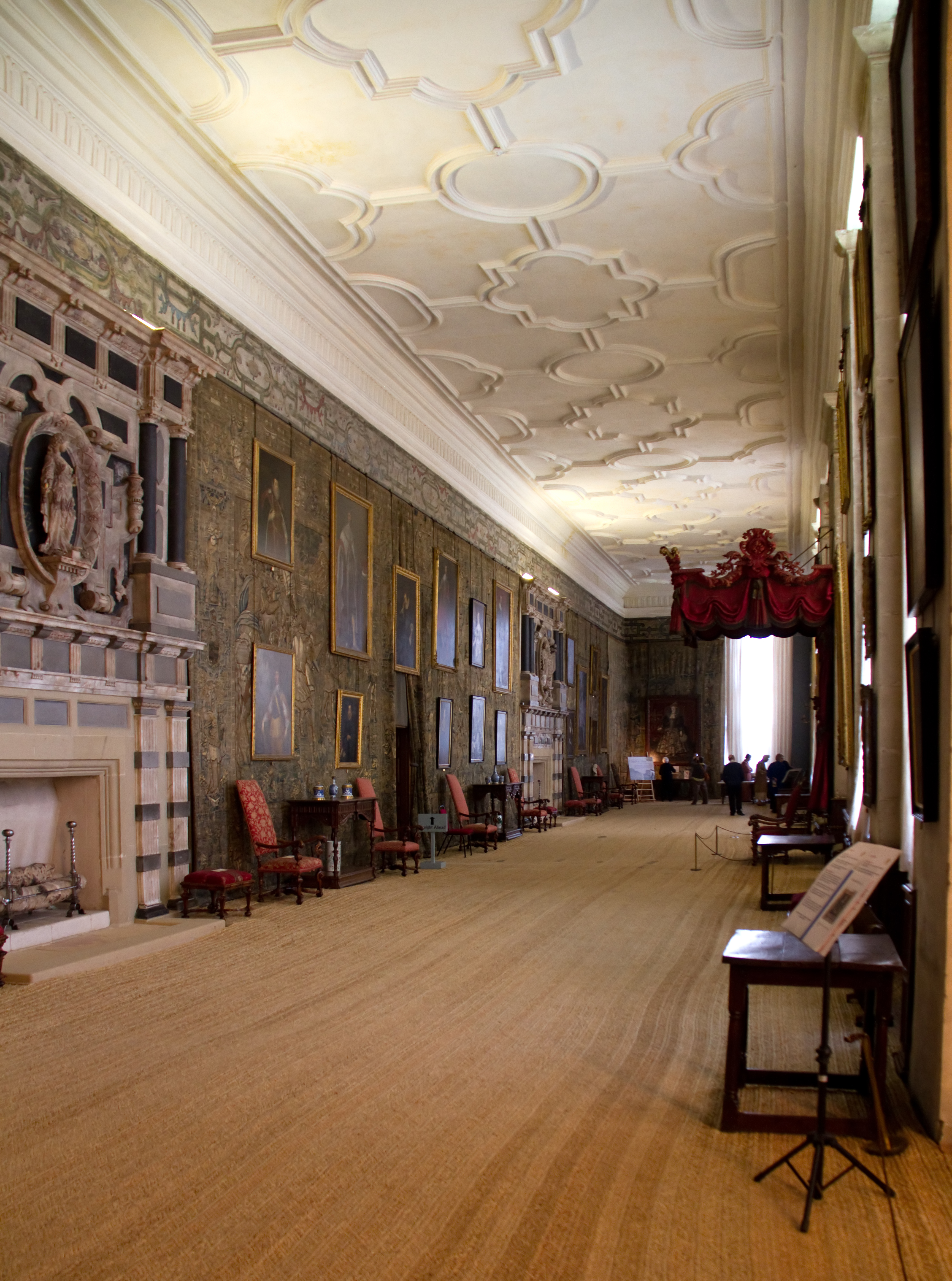 Hardwick Hall Long Gallery 2